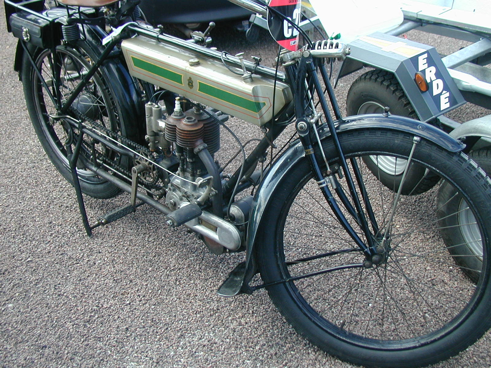 Very old Triumph in Coupes Moto Légendes (Coupes Moto Légendes) Picture by Gérard Delafond